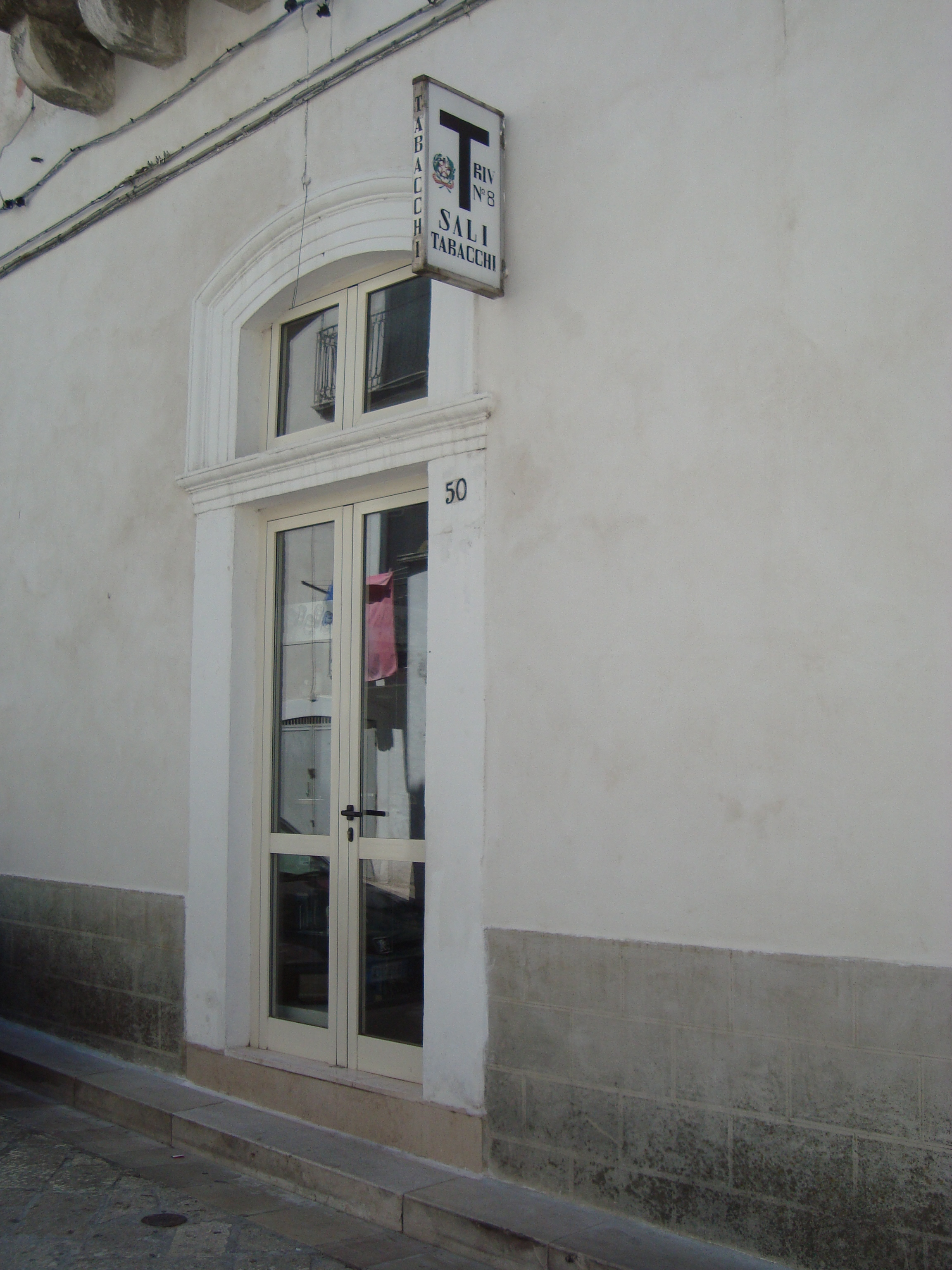 Un bureau de tabac de Monte Sant'Angelo